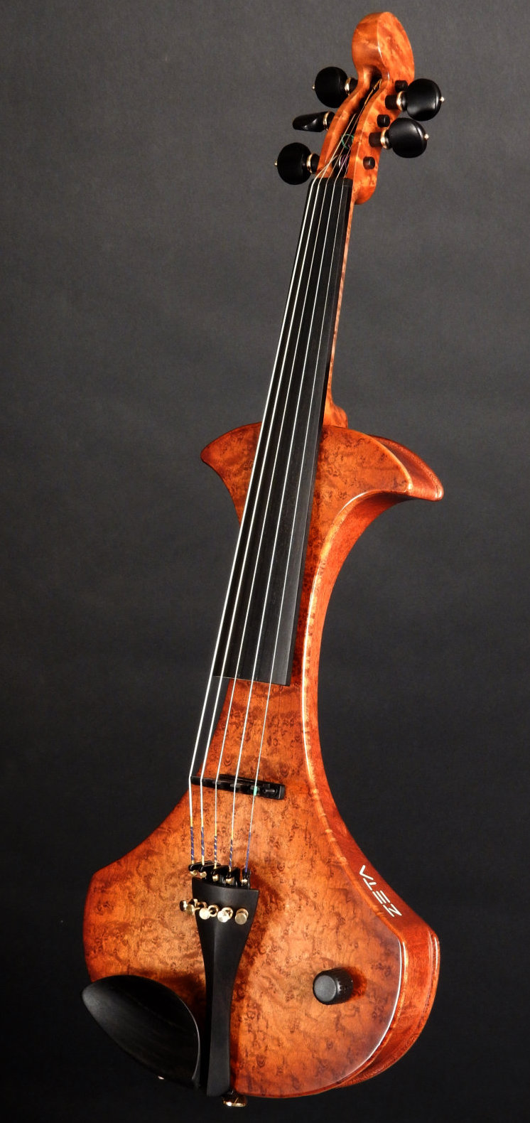 Zeta Modern 5-string violin